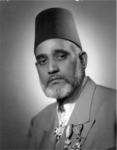 picture of J.M. Abdul Aziz (1905–1958)